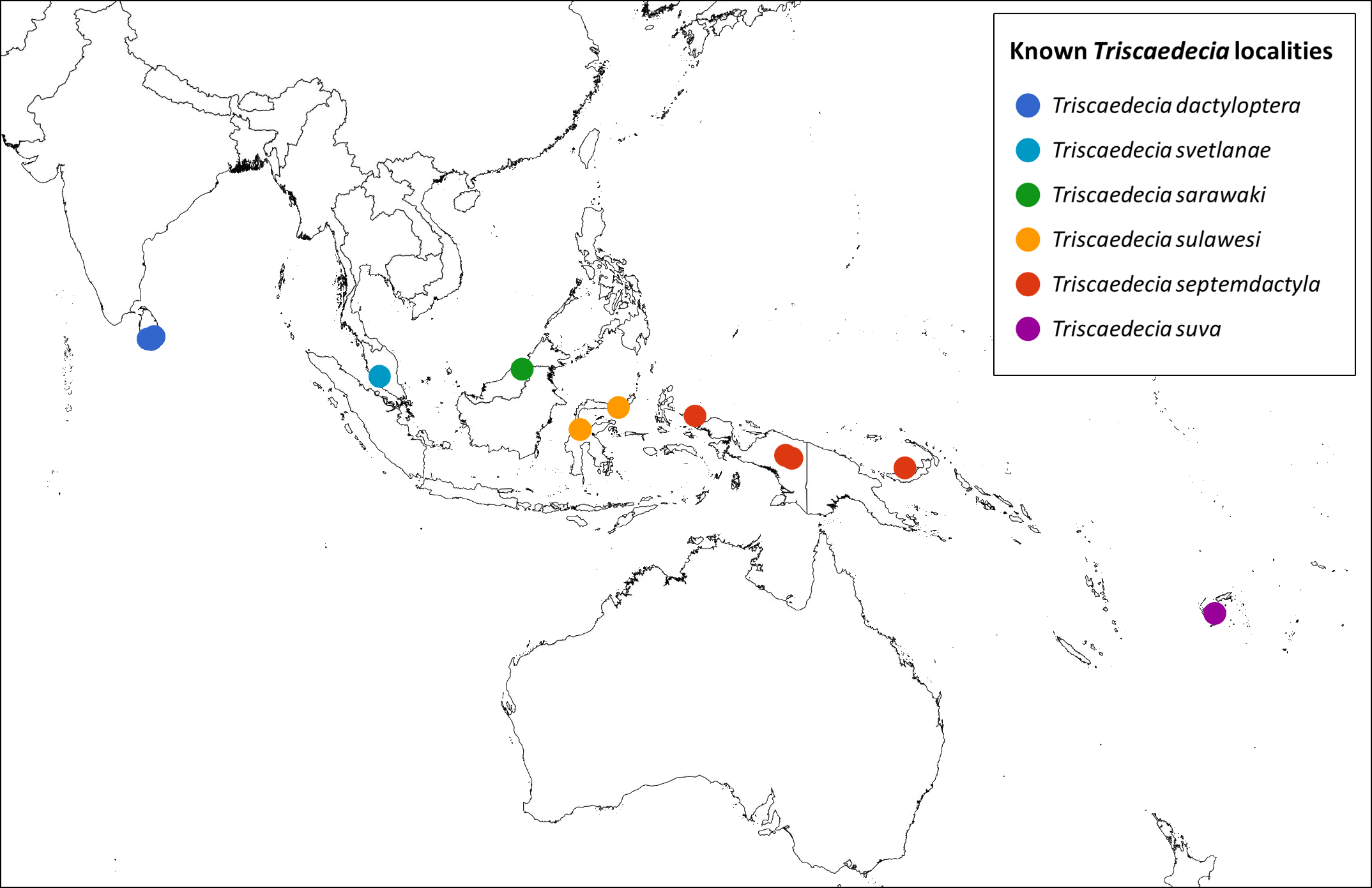 Known Triscaedecia localities. All recorded localities for Triscaedecia species, based on Pagenstecher, 1900; Hampson, 1905; Fletcher, 1910; Gielis, 2009; Ustjuzhanin, Kovtunovich & Hobern 2019.